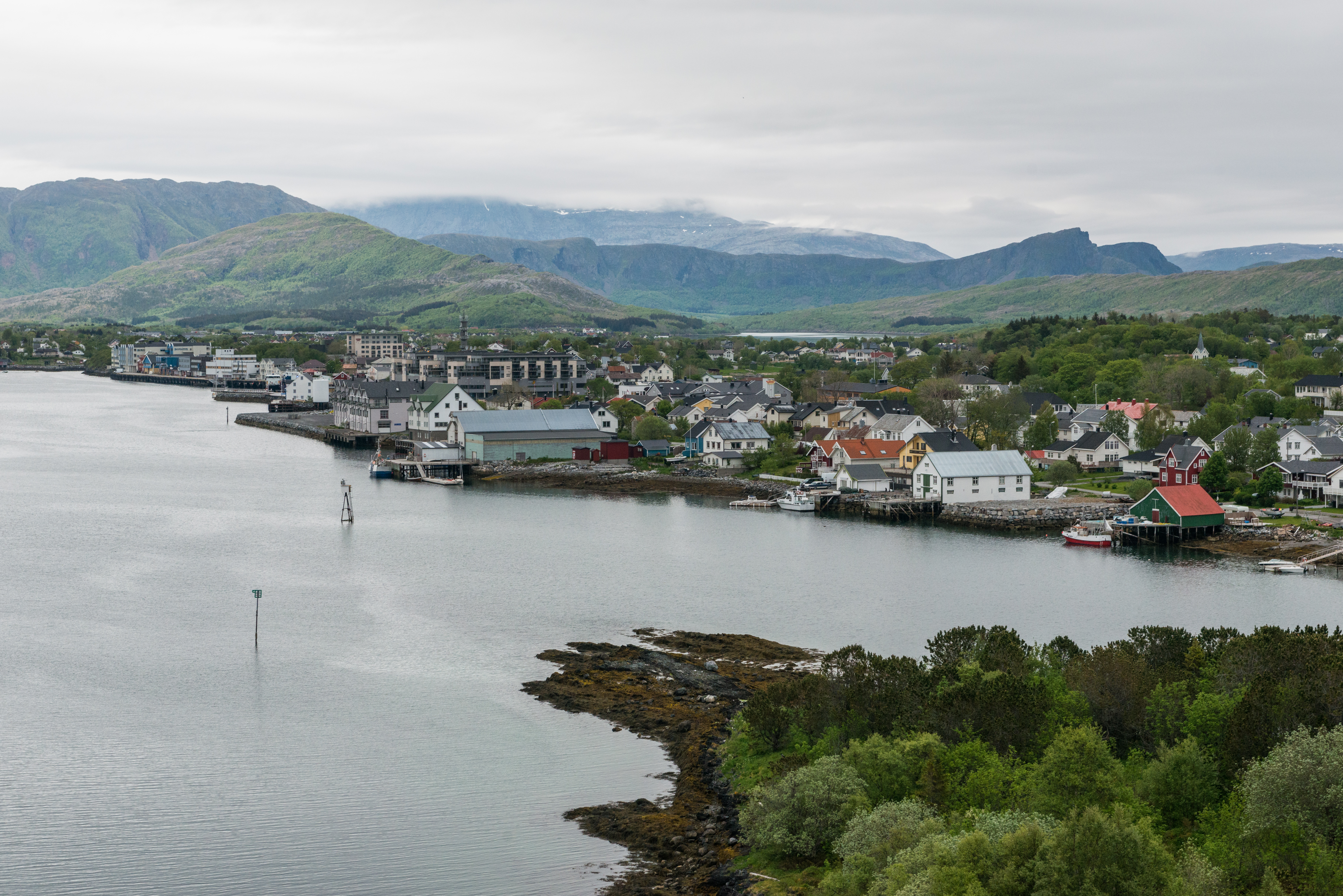 A southwest view of Brønnøysund, as seen from the Brønnøysund bridge